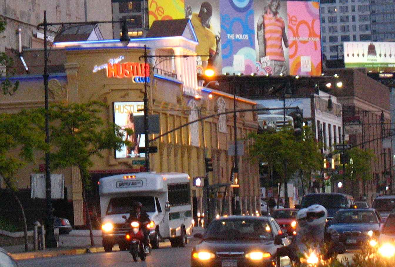 Larry Flynt's Hustler Club in Hell's Kitchen in New York